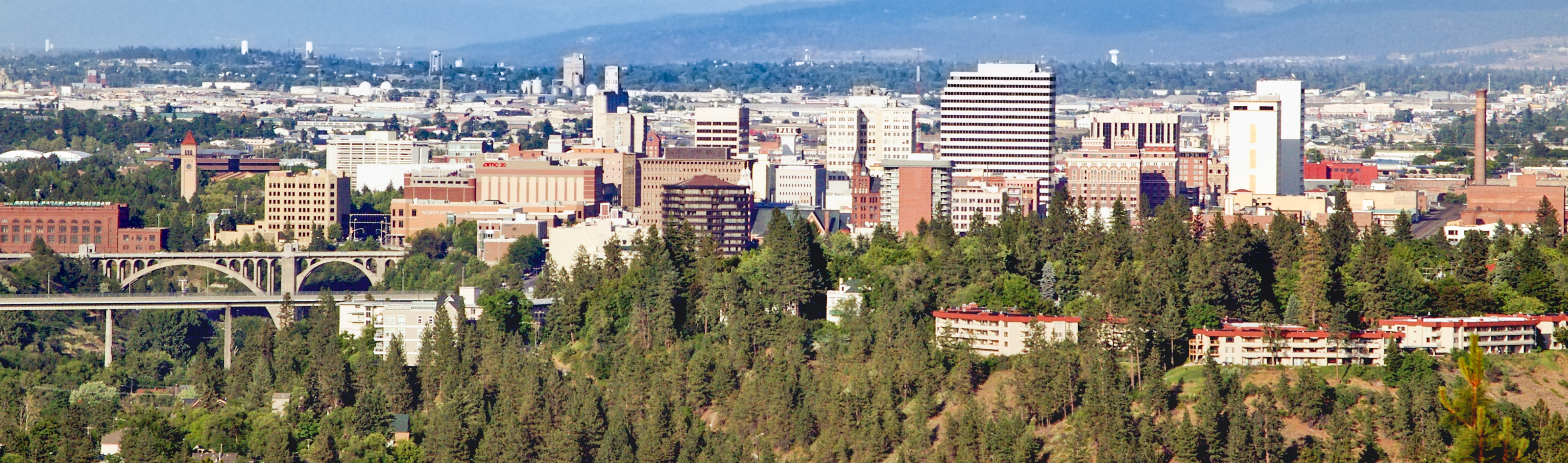 Downtown Spokane, Washington, as viewed from Palisades Park to the west of the city.